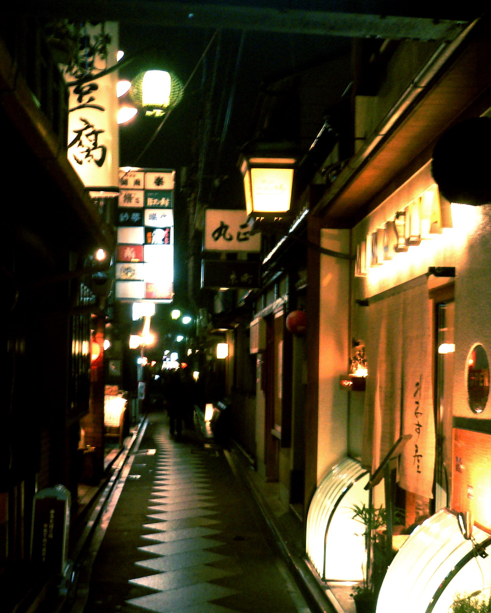 Pontochō centres around one long, narrow, cobbled alley running from Shijo-dōri to Sanjo-dōri, one block west of the Kamogawa in Kyoto. Today the area, lit by traditional lanterns at night, contains a mix of very expensive restaurants - featuring outdoor riverside dining on wooden patios throughout the summer - geisha houses and tea houses, brothels, bars, and cheap eateries. It has a unique atmosphere - elegance and traditional beauty really do balance with seediness and the slightest hint of danger.